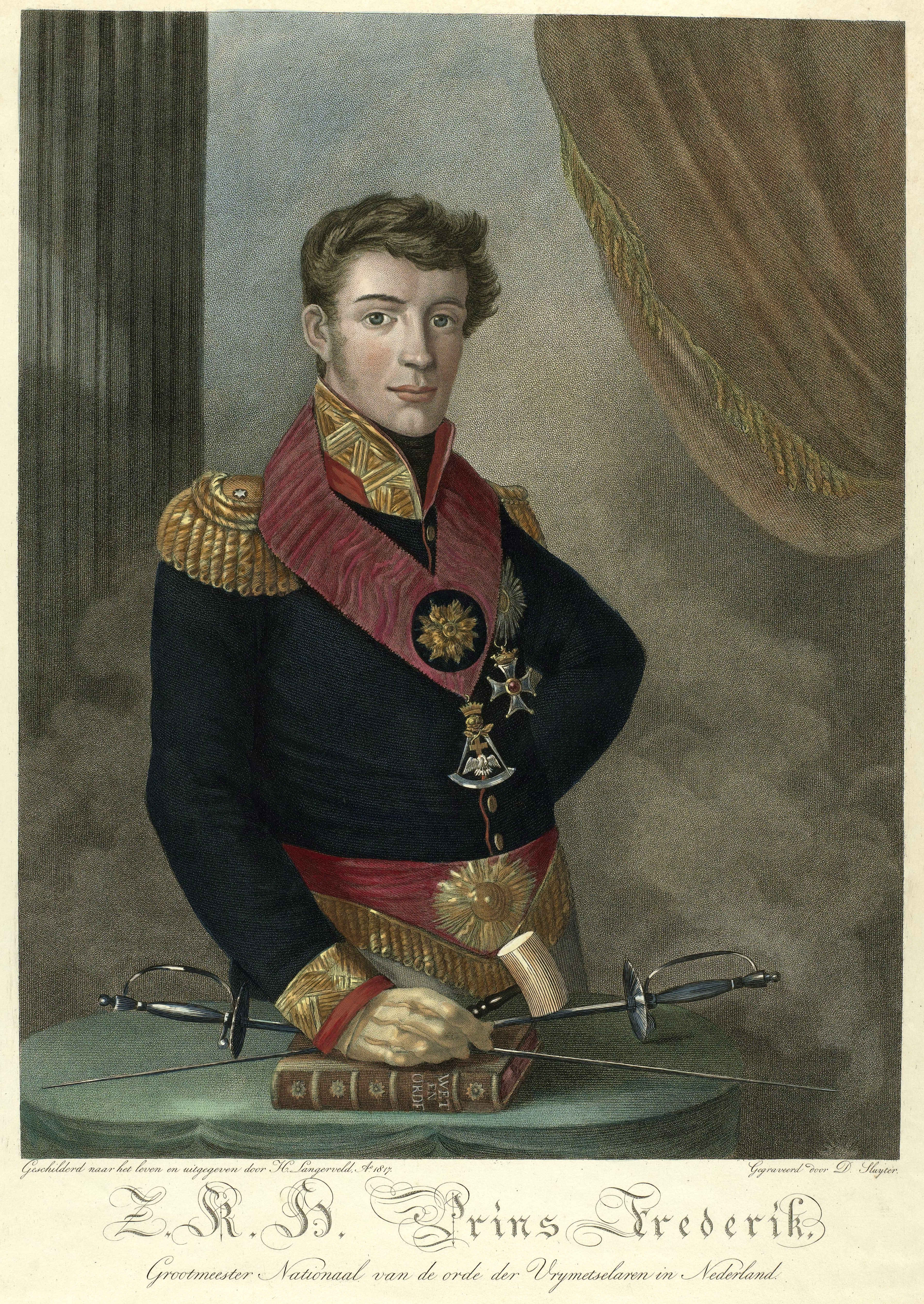 Portrait of Prince Frederik of the Netherlands as Grand Master of the Dutch freemasons. In his right hand a hammer. Underneath it lies a book with two crossed swords. In the bottom margin his name and titles.